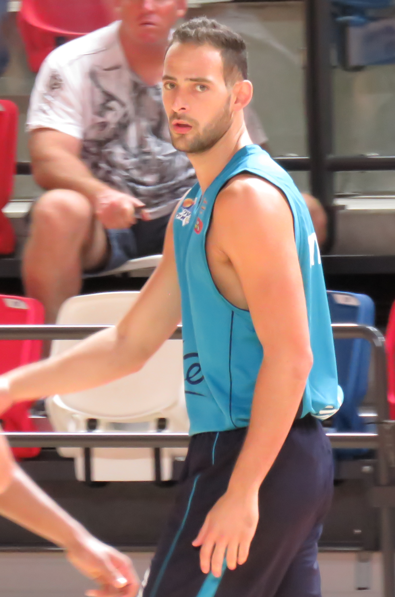 Hapoel Eilat vs. Maccabi Haifa B.C., 25 September, 2015